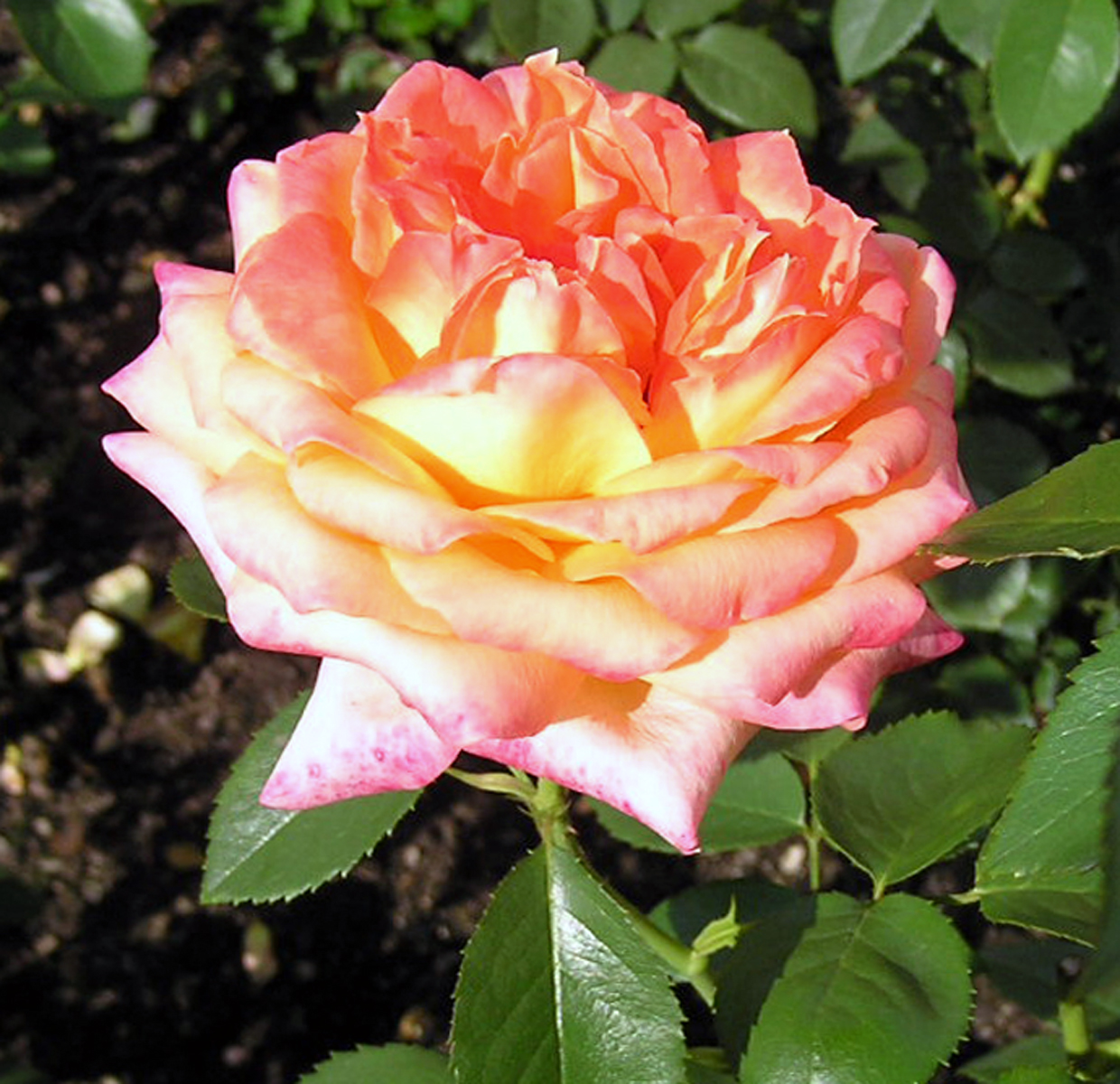 Description: Rose 'Yankee Doodle' Source: Eigene Fotografie Date: 25. Juli 2005 Author: Schubbay